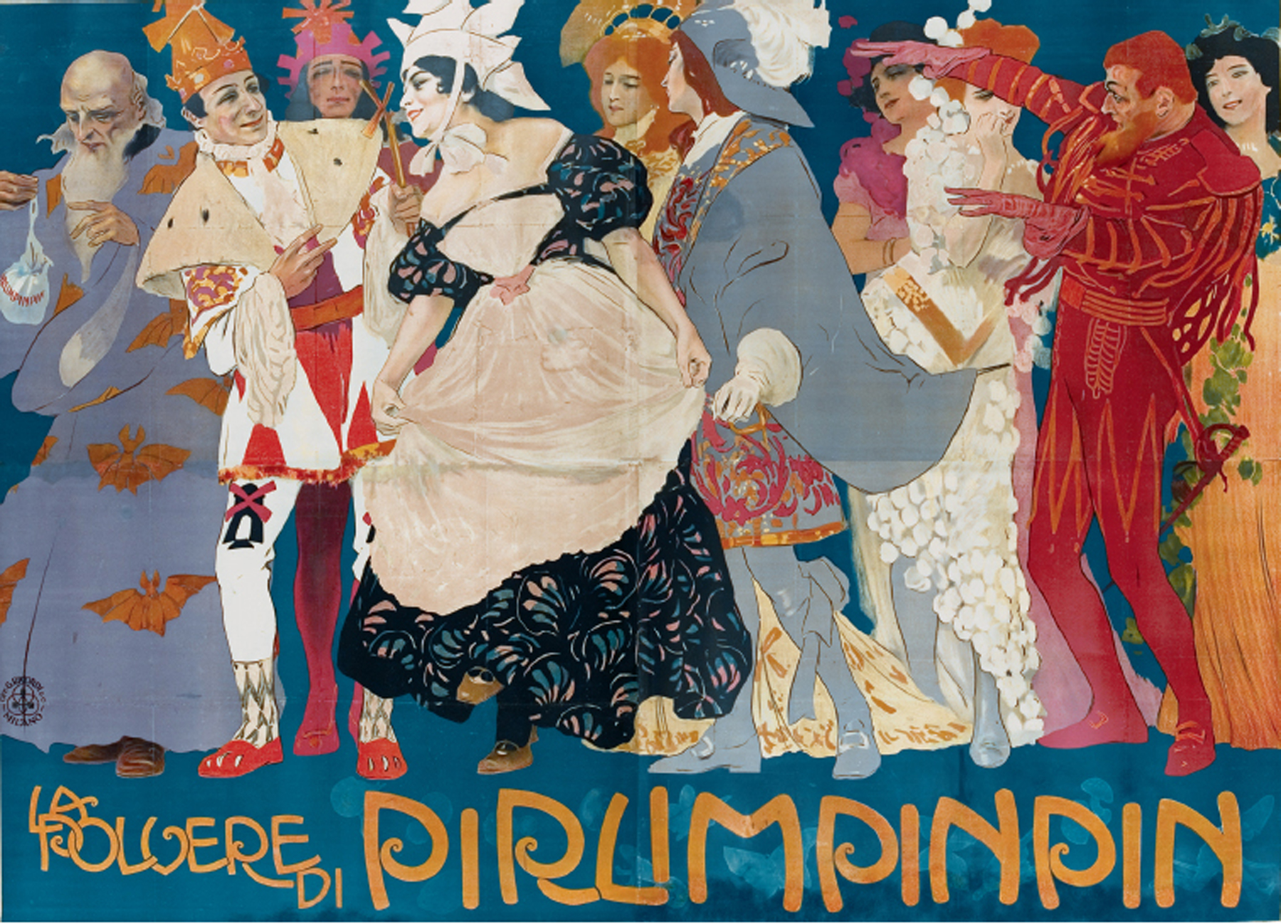 Poster by Leopoldo Metlicovitz. La polvere di Pirlimpinpin : féerie in tre atti e 16 quadri / di Carlo Vizzotto. - Milano